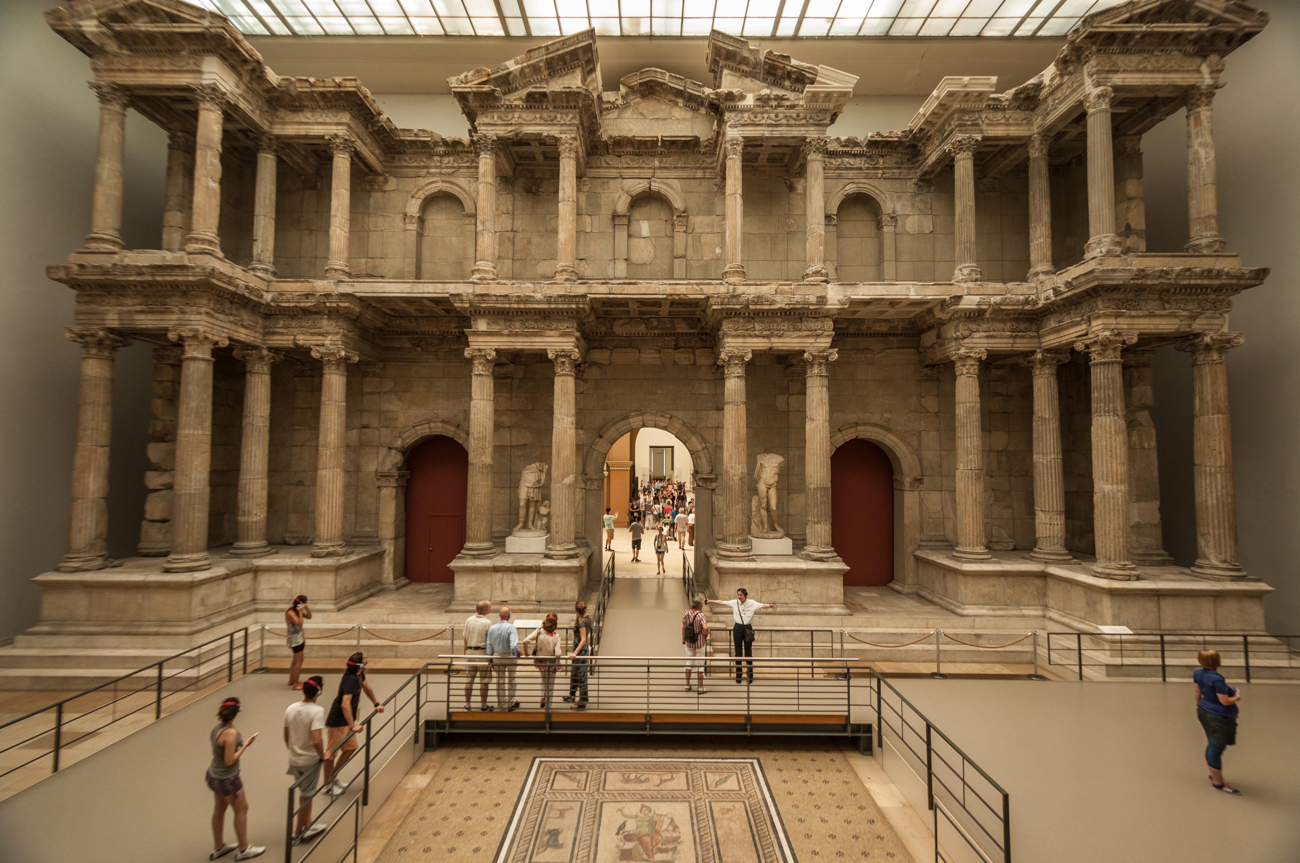 The Market Gate of Miletus (German: das Markttor von Milet) is a large marble monument in the Pergamon Museum in Berlin, Germany. It was built in Miletus in the 2nd century AD and destroyed in an earthquake in the 10th or 11th century. In the early 1900s, it was excavated, rebuilt, and placed on display in the museum. Only fragments had survived and reconstruction involved significant new material, a practice which generated criticism of the museum. The gate was damaged in World War II and underwent restoration in the 1950s. Further restoration work took place in the first decade of the 21st century.This is a photograph of an architectural monument.